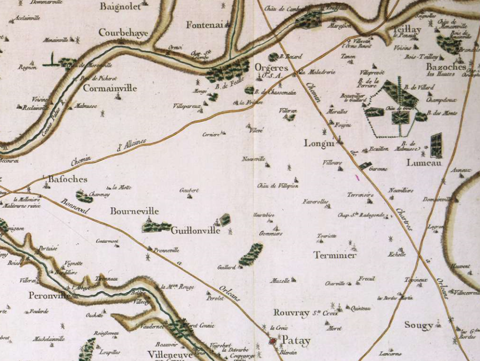 Extract of Carte de Cassini - 1757 - France Courbehaye, Ormoy Loigny Lumeau Terminiers Patay